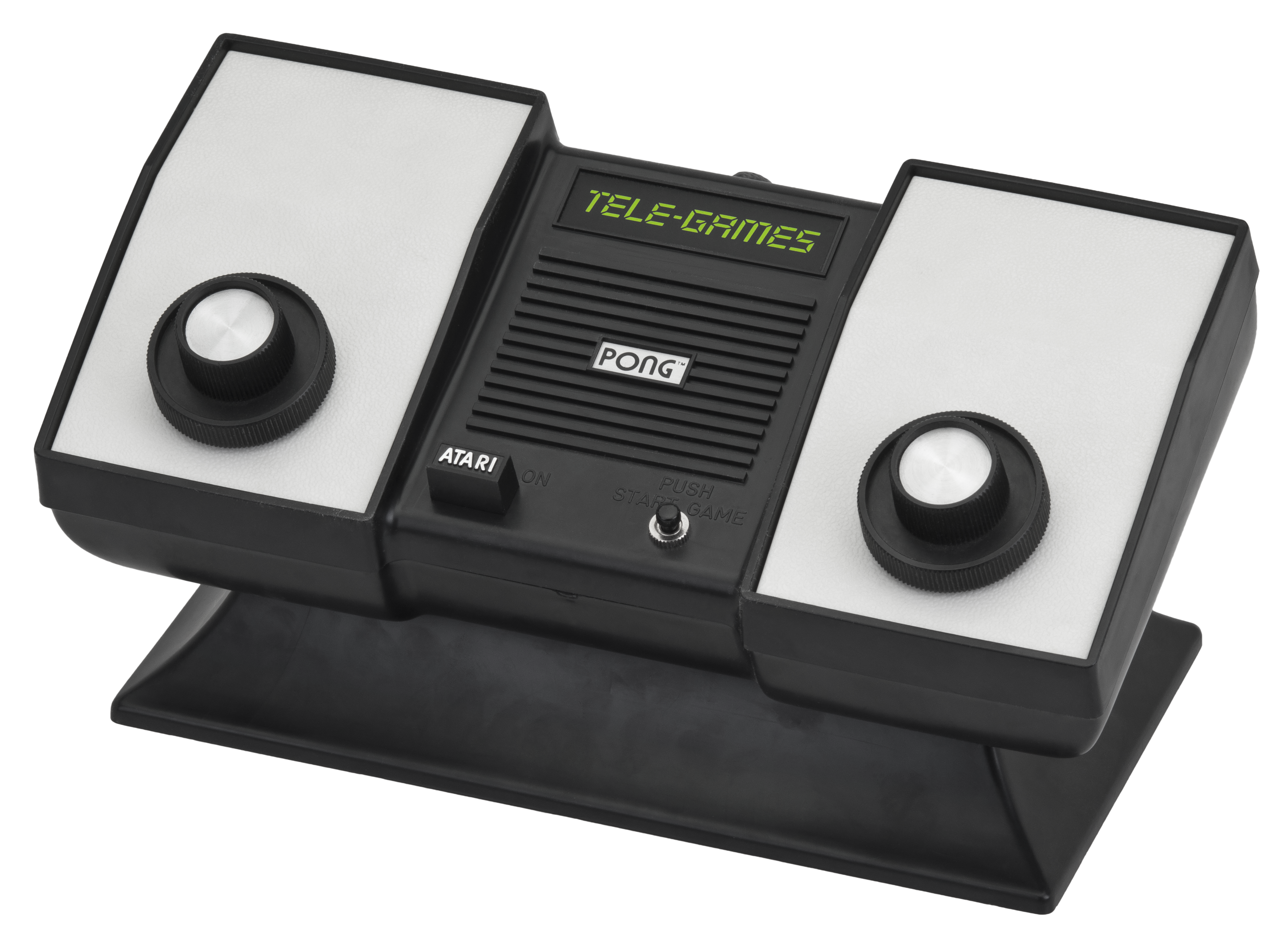 The Sears Tele-Games Atari Pong console, released in 1975.